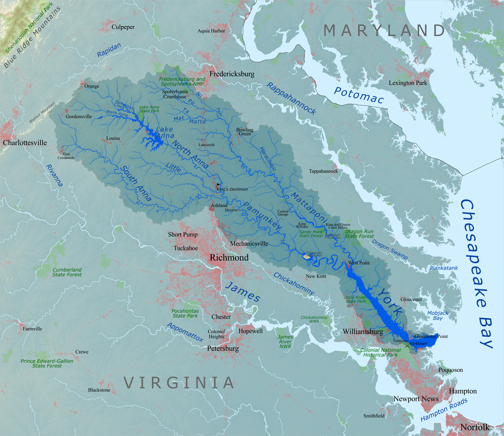 Map of the York River drainage basin made using data from the National Map.